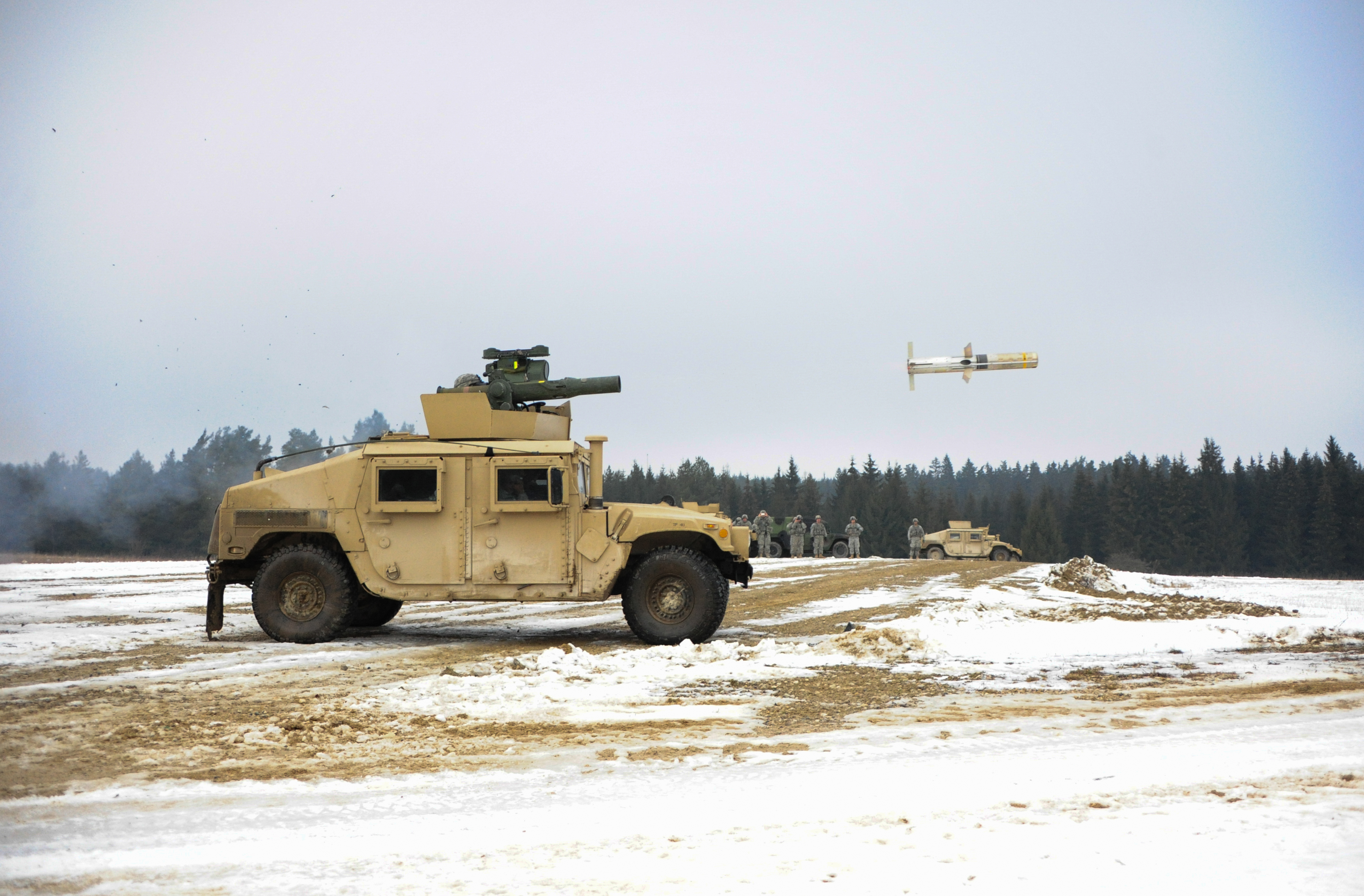 Paratroopers assigned to Destined Company, 2nd Battalion, 503rd Infantry Regiment, 173rd Infantry Brigade Combat Team (Airborne) out of Vicenza, Italy, fire a TOW 2B missile during a live-fire exercise at the Joint Multinational Training Command in Grafenwoehr, Germany, Feb. 1, 2014. (Photo by U.S. Army Staff Sgt. Pablo N. Piedra/released) Date Taken:02.01.2014 Date Posted:02.05.2014 06:52 Photo ID:1161607 VIRIN:140201-A-KG432-170 Resolution:3741x2458 Size:4.55 MB Location:GRAFENWOEHR, BY, DE Read more